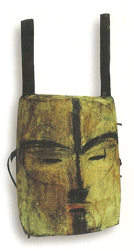 Bodi gabonese traditionnal mask from the Mitsogho ethny